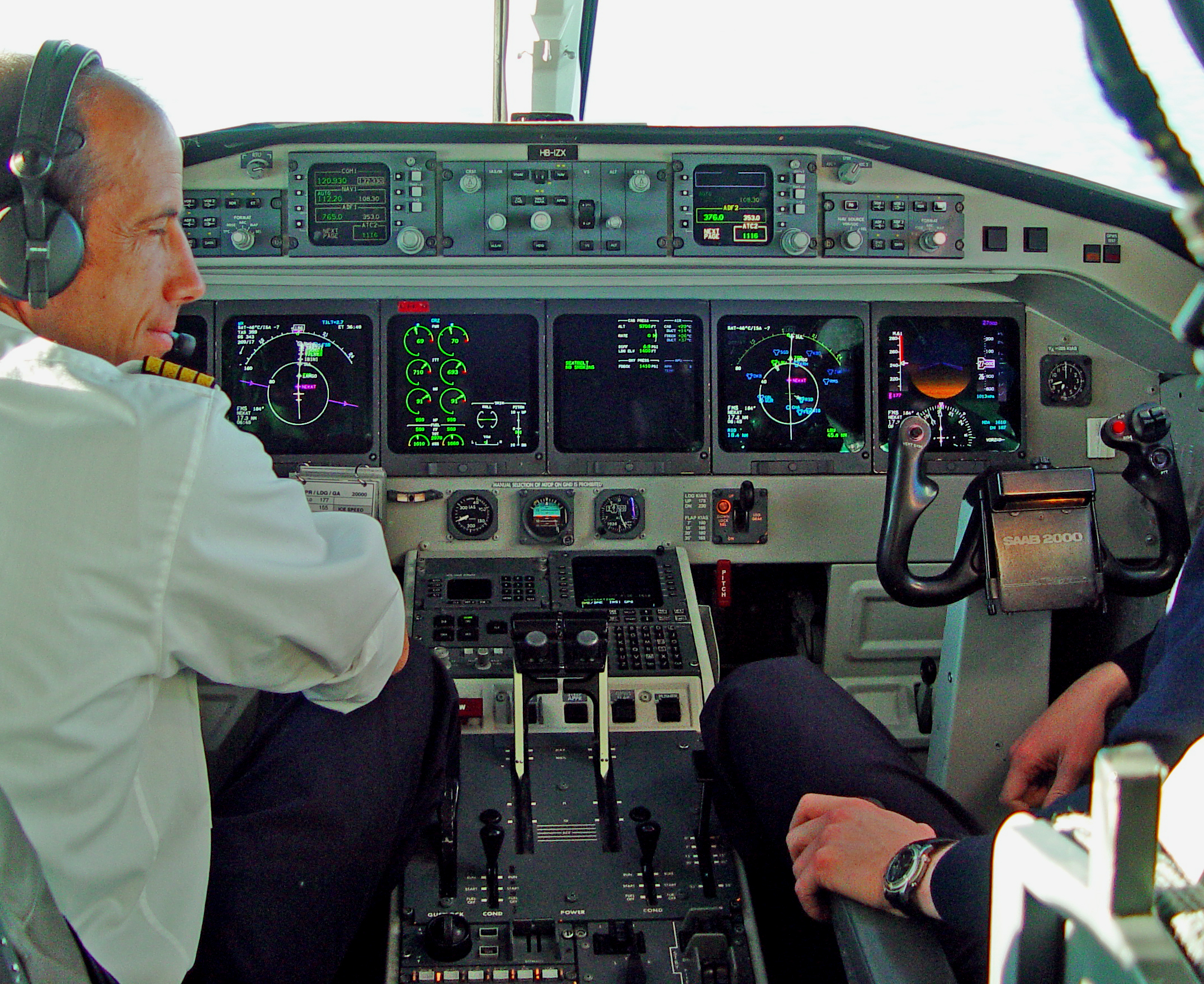 Swiss HB-IZX Saab 2000 cockpit